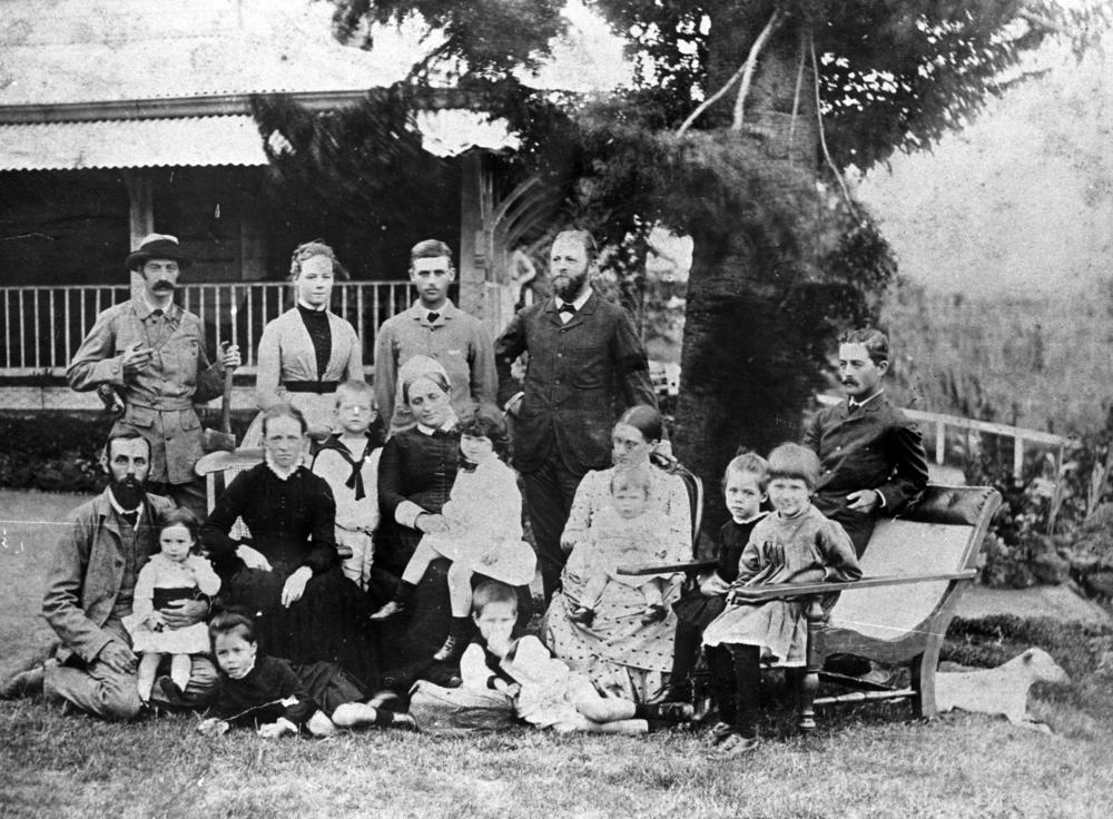 McConnel family at Cressbrook Station, ca. 1887. Photograph of the McConnell family in the garden at Cressbrook. J. H. McConnel was the Managing Partner at D. C. McConnel & Sons after his father's death in 1885.